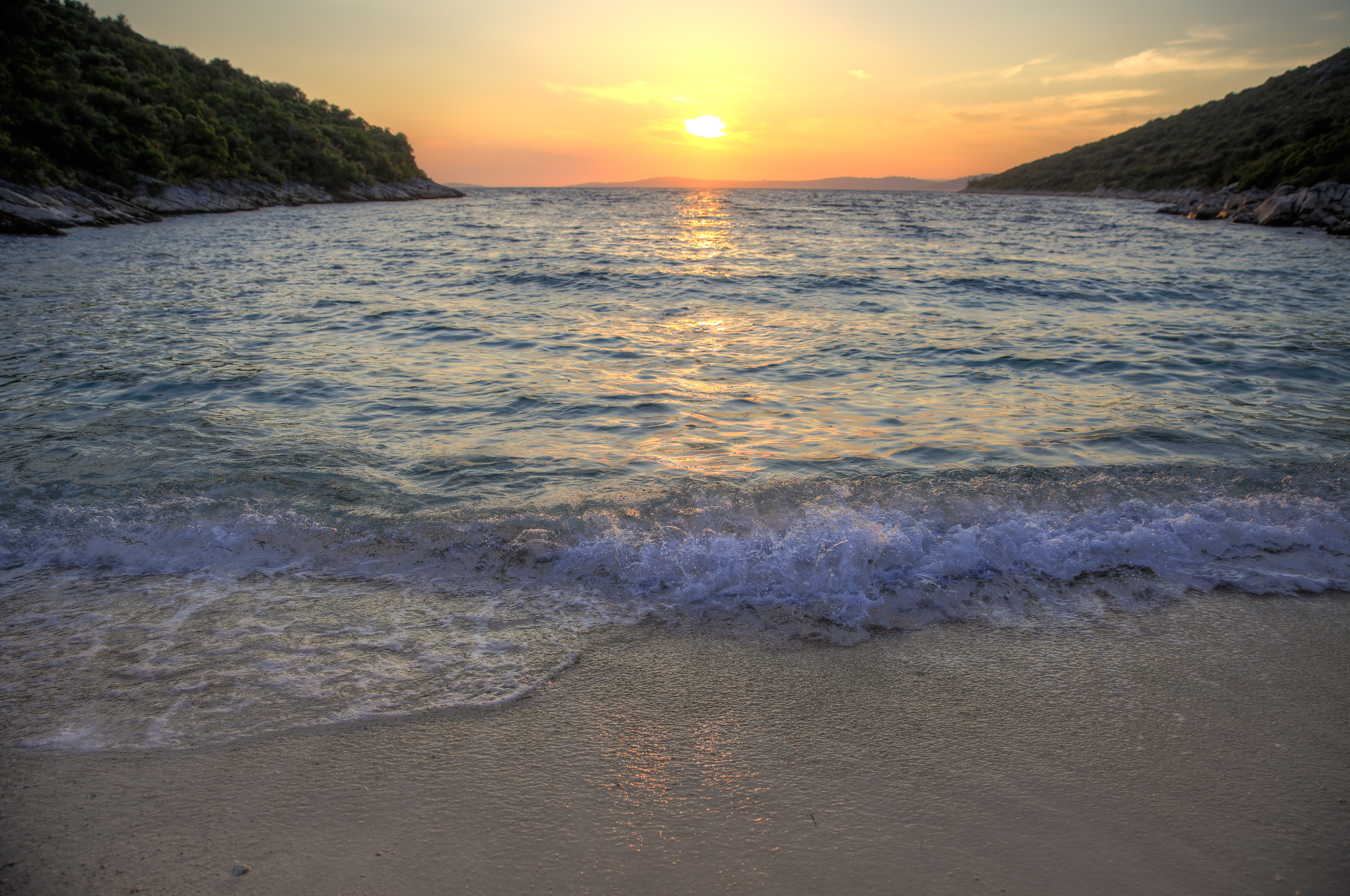 The bay Šipkova uvala near Maslinica Maslinica on the island Šolta / Croatia / Adriatic Sea / EU. Here is the only sandy beach on the island of Solta. Atmosphere at sunset, looking towards the west. In 2016 the bay is still undeveloped.